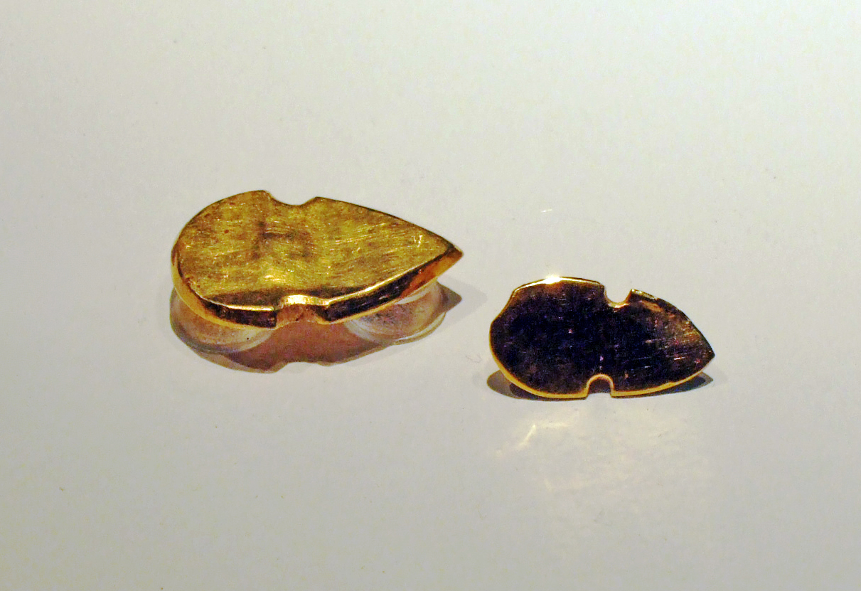 Two shield-shaped belt fittings of gold from the Ödenkirche plot grave field at Keszthely-Fenékpuszta Zala County, Hungary These belt fittings were found in Grave A of the Ödenkirche plot grave field at Keszthely-Fenékpuszta. In the 130 graves at this site, typically Germanic objects were found in addition to the characteristic objects of early Keszthely culture (6th-7th centuries). Grave A is a large, east-west oriented wooden grave chamber of a robust adult male measuring 1.88 meters (= 6' 2") tall. The grave was robbed shortly after the wooden structure collapsed, but a few important objects including these belt fittings survived. Photographed while on display from 22 August 2008 to 11 January 2009 in the exhibition "Die Langobarden. Das Ende der Völkerwanderung" at the Rheinisches LandesMuseum Bonn. On loan from the Balatoni Múzeum Keszthely.